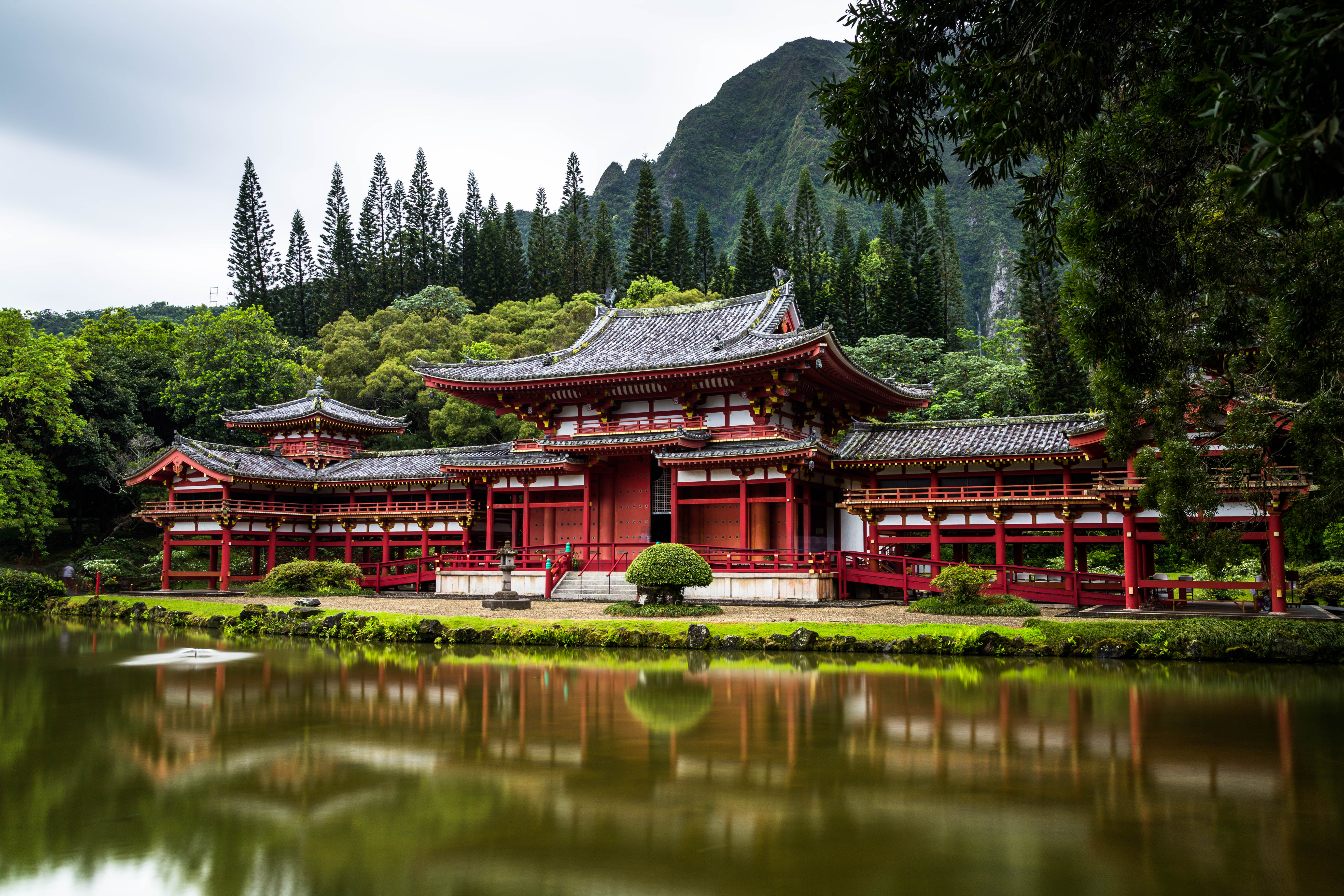 Byodo-In Temple, Kaneohe, United States